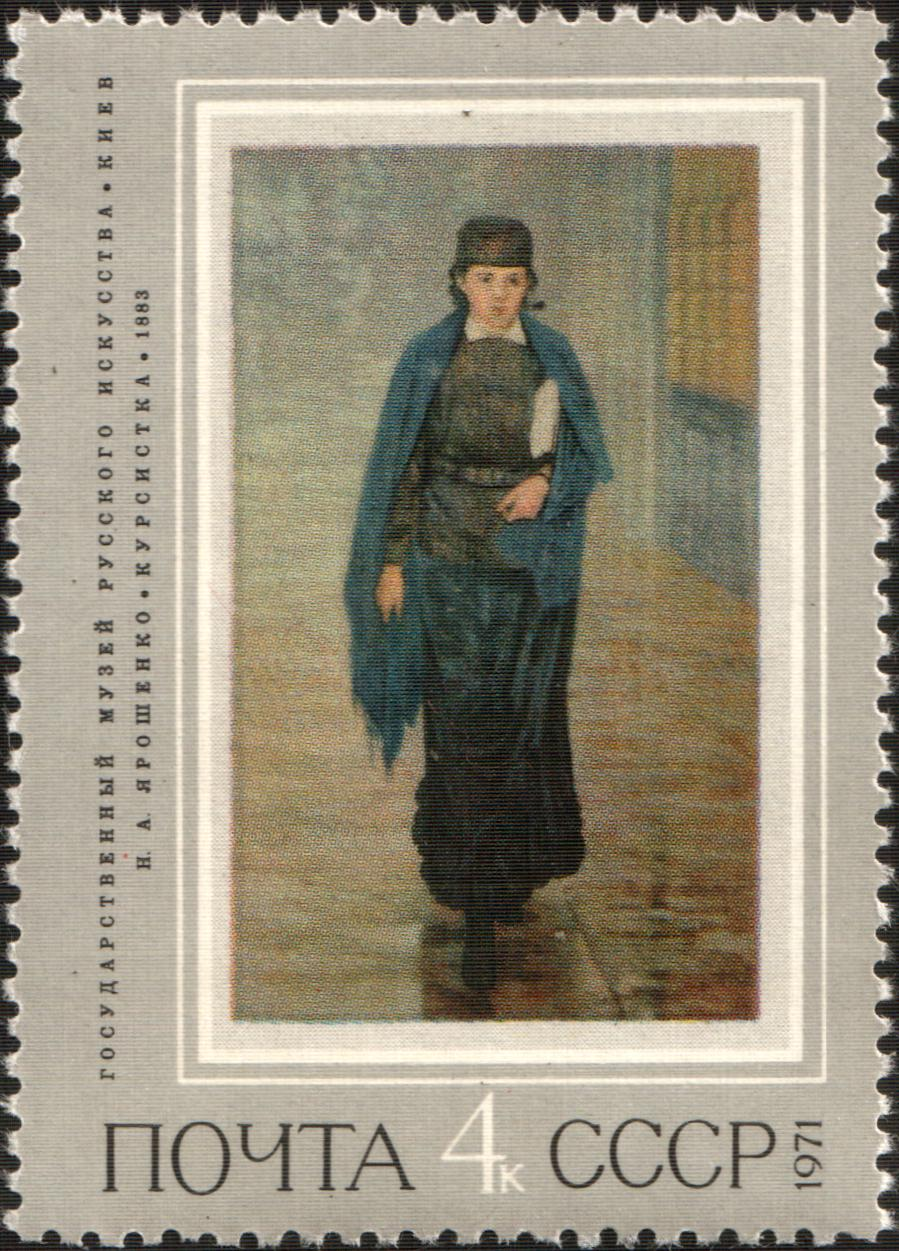 USSR stamp: "Girl Student", by Nikolai Yaroshenko. Series: Russian Painting from 18th- to Early 20th-century. Centenary of Peredvizhniki